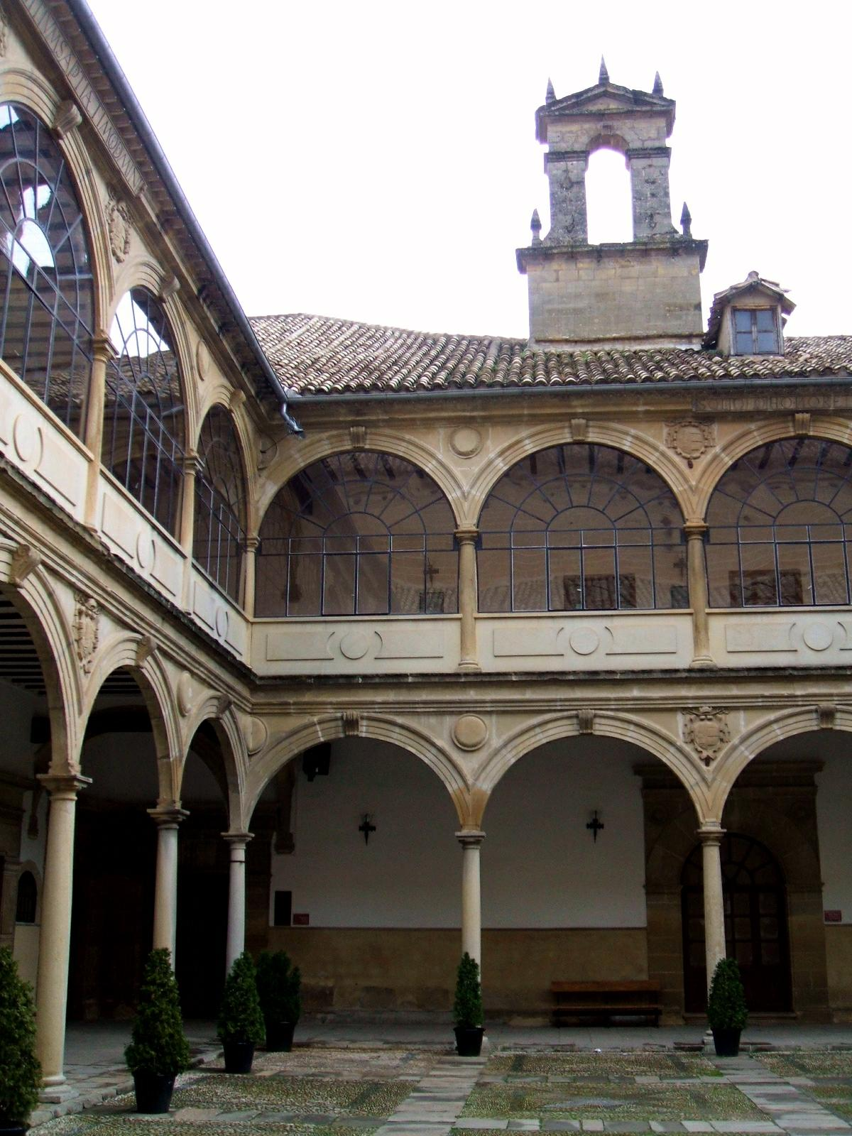 Patio de la Antigua Universidad de Baeza (Jaén, Andalucía, España)